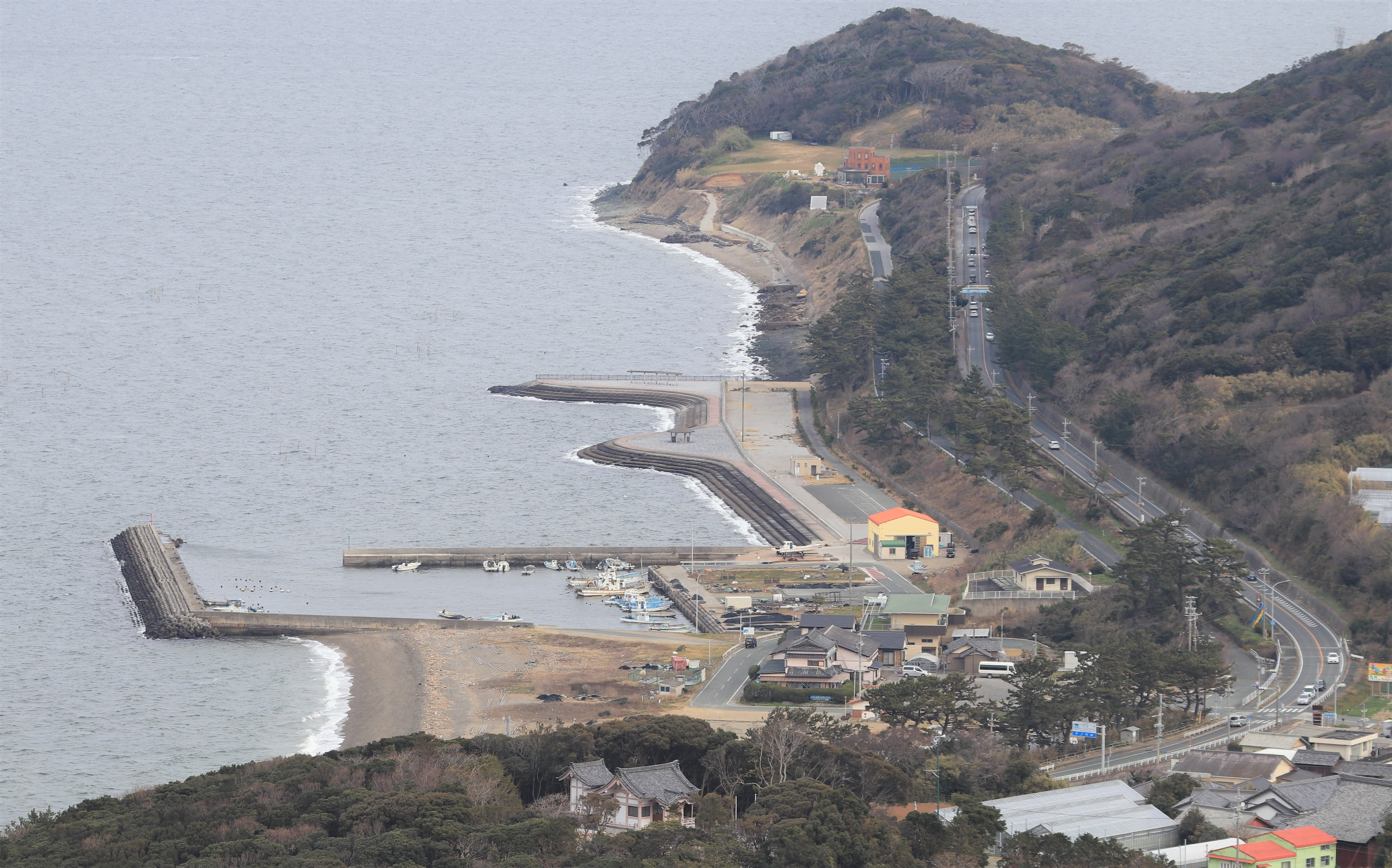 Port of Uzue and Route 259 in Uzue-cho, Tahara, Aichi Prefecture, Japan.